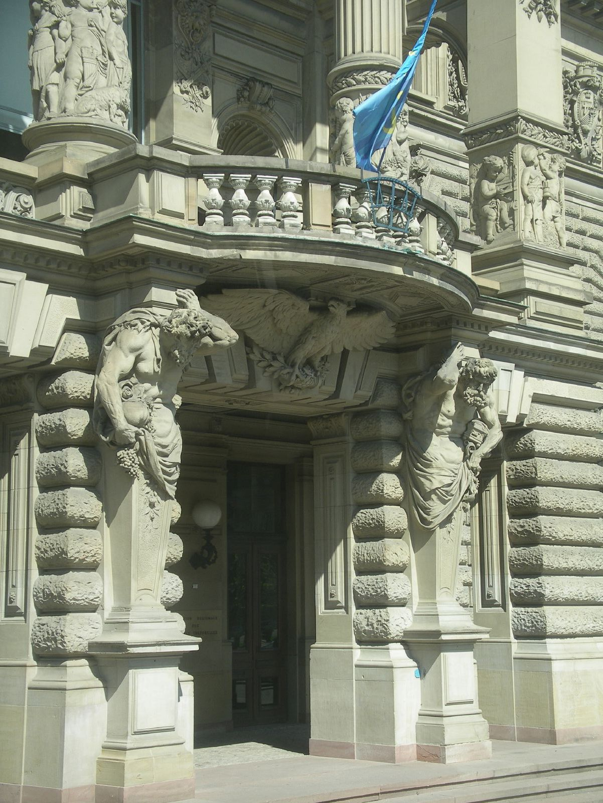 Strasbourg 25